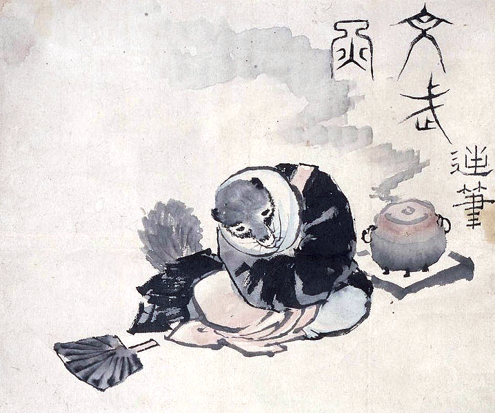 Title: "Gyakuhitsu Bunbuku chagama zu (The Tea-Kettle Raccoon: Painting Executed Upside Down). Hanging scroll, 25.6 x 30.9 cm. William Sturgis Bigelow Collection.[1] Actually a raccoon-dog or tanuki transformed into a monk, alluding to the Japanese legend of Bunbuku Chagama at Morin-ji temple, etc.